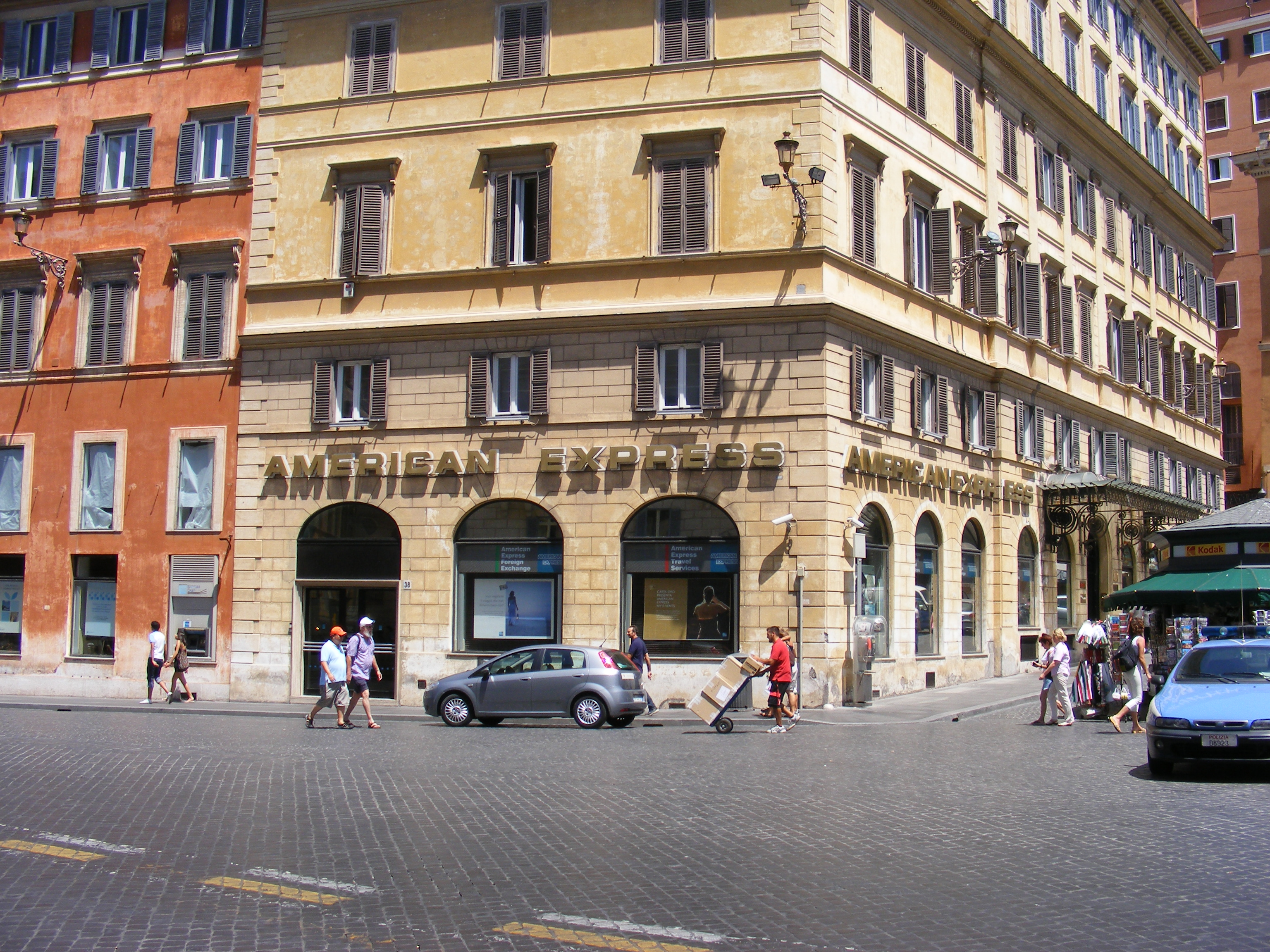 Piazza di Spagna 38 (American Express office)